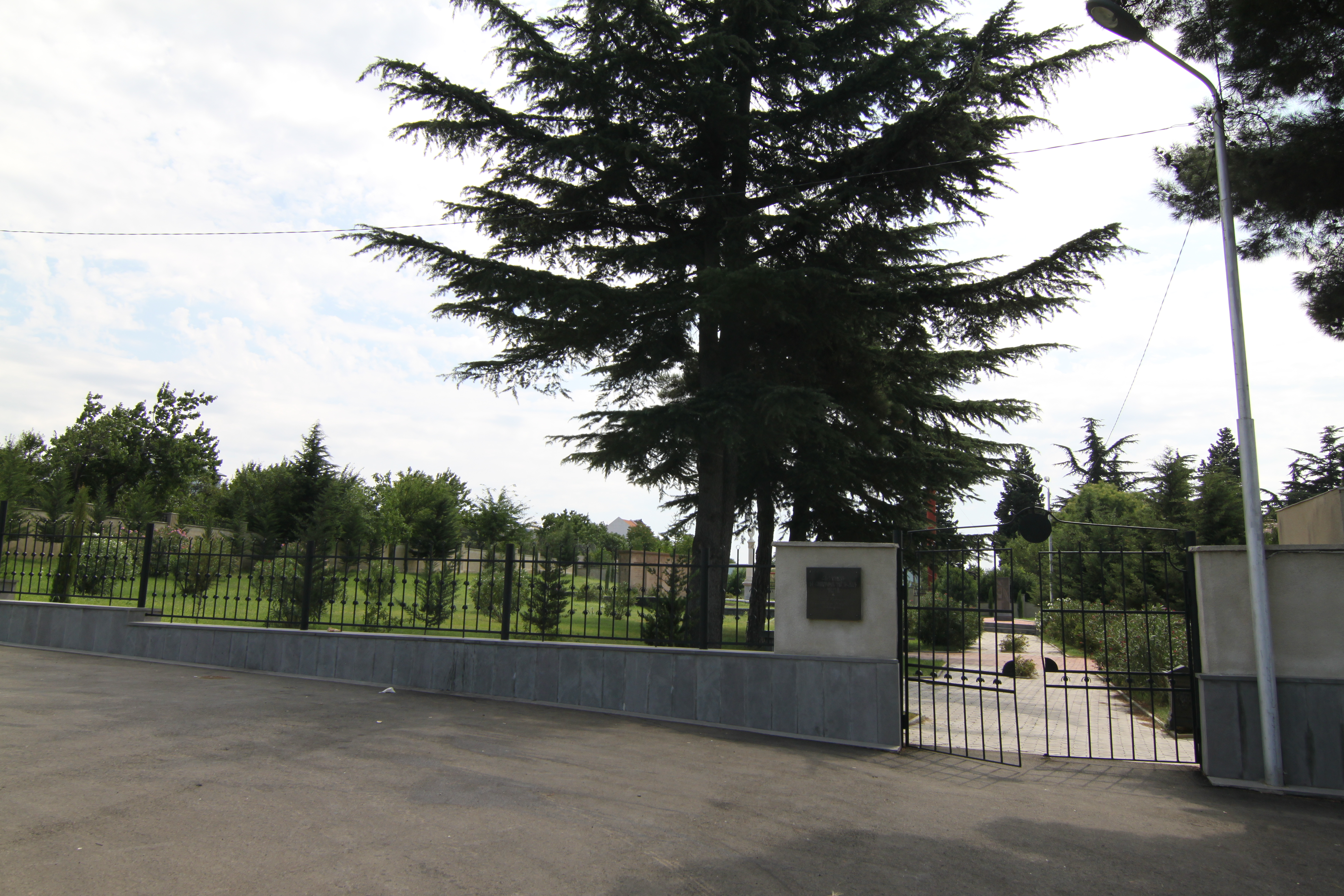 Entrance to the Armenian Pantheon of Tbilisi.